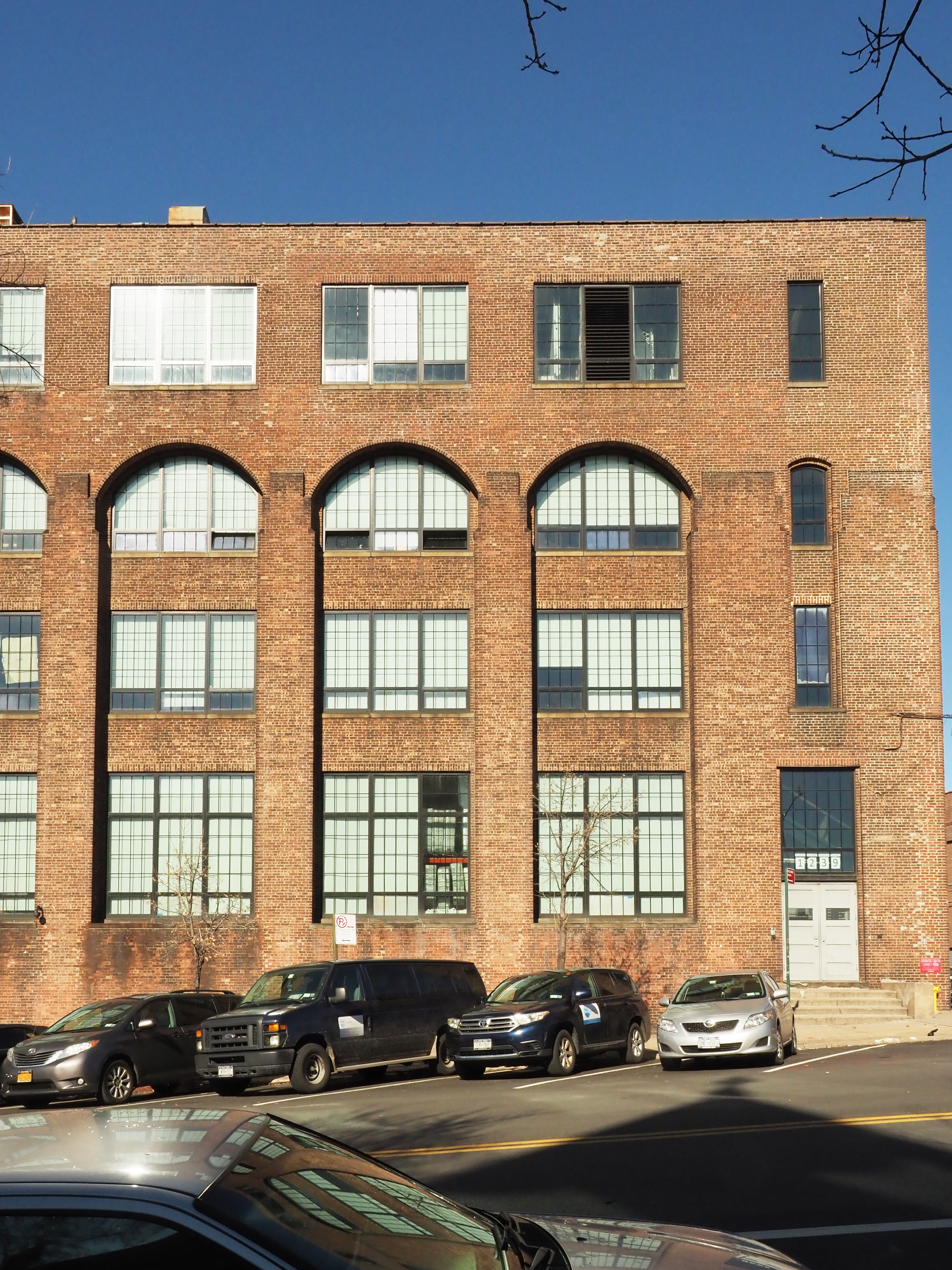 Detail of the Lafayette Ave side of the American Bank Note Company printing plant at 1201 Lafayette Ave, Bronx, NY.